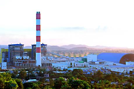 dgdhgfg